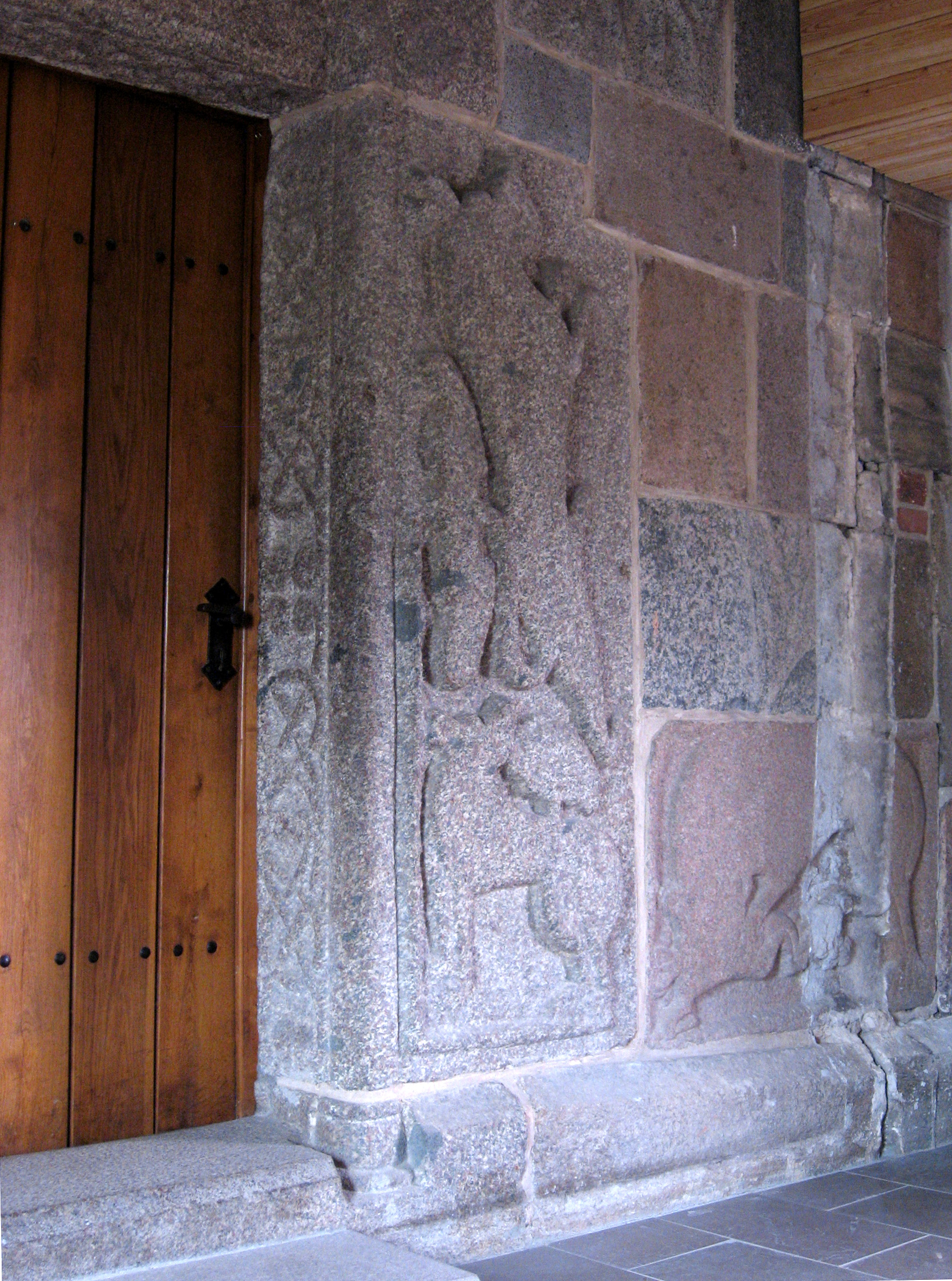 Hasle Kirke in Hasle, Århus, Denmark. Romanesque south portal.